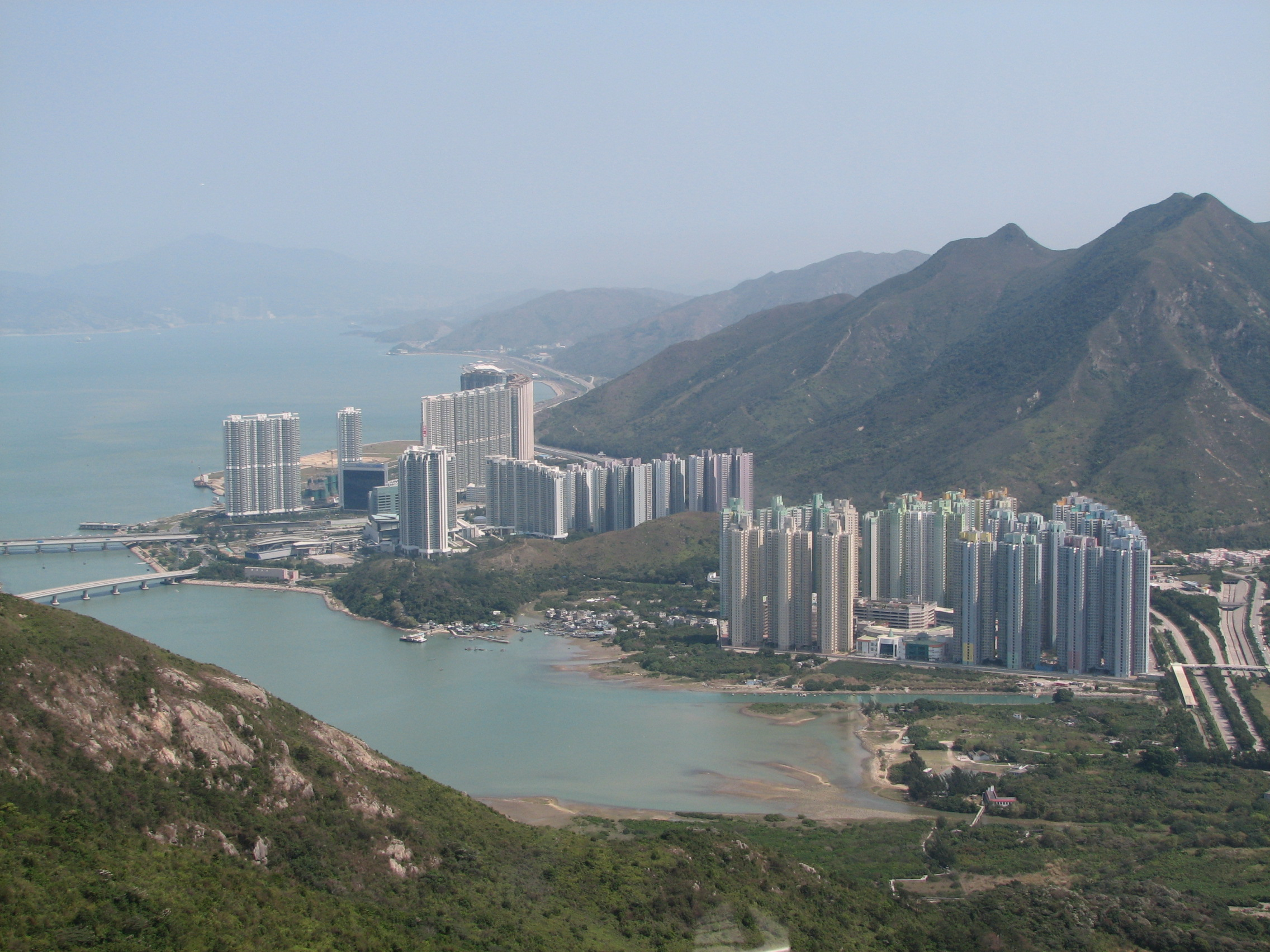 Overlook of Tung Chung new town, viewed from west, taken from Ngong Ping Skyrail cable car.